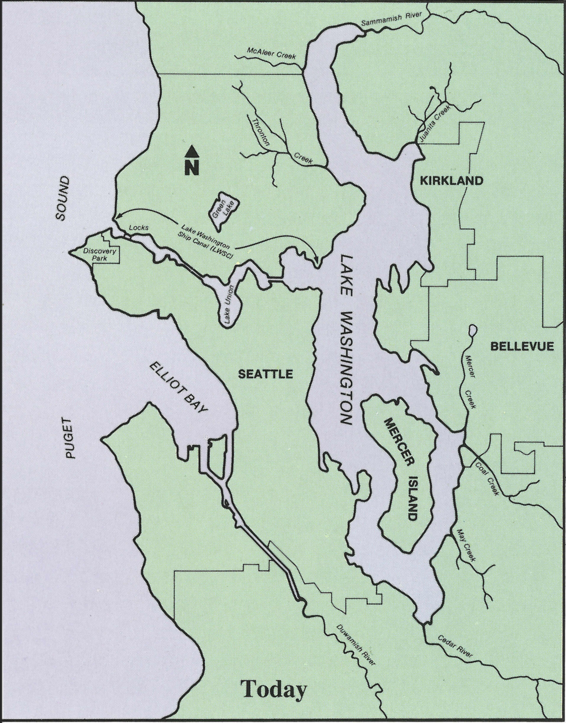 Map of waterways in and around Seattle, Washington as they were in the 1990s (still accurate 2011), scanned at 600 dpi and cleaned up.